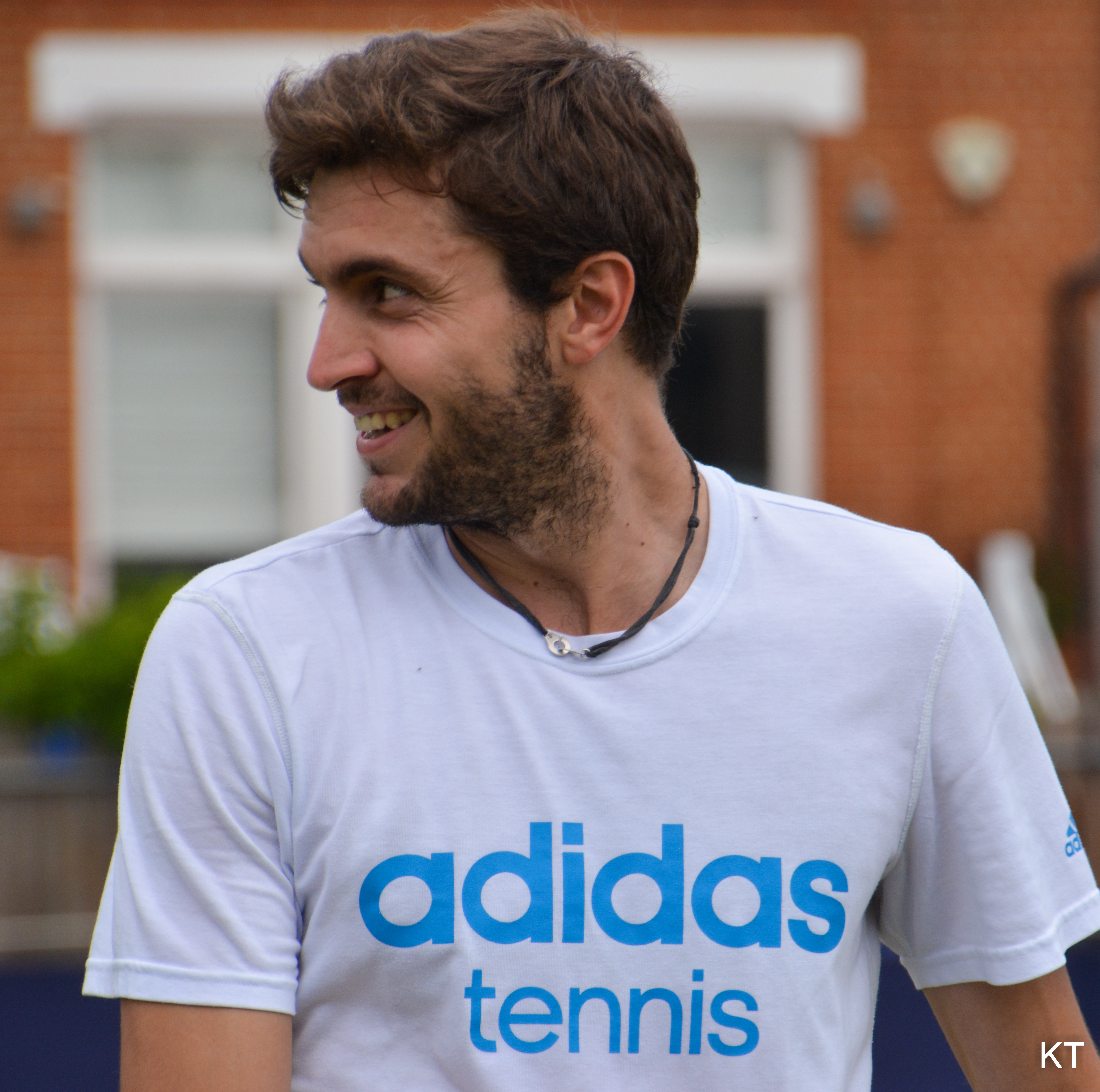 On the practice court with Feliciano Lopez. Aegon Championships, Queen's Club, June 2015.